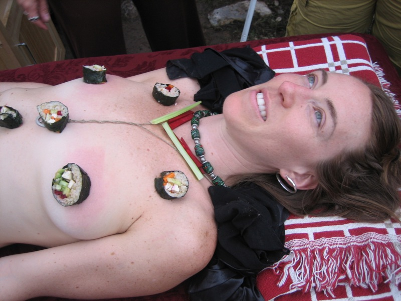 Naked woman ready for food play with maki zushi at Burning Flipside 2007